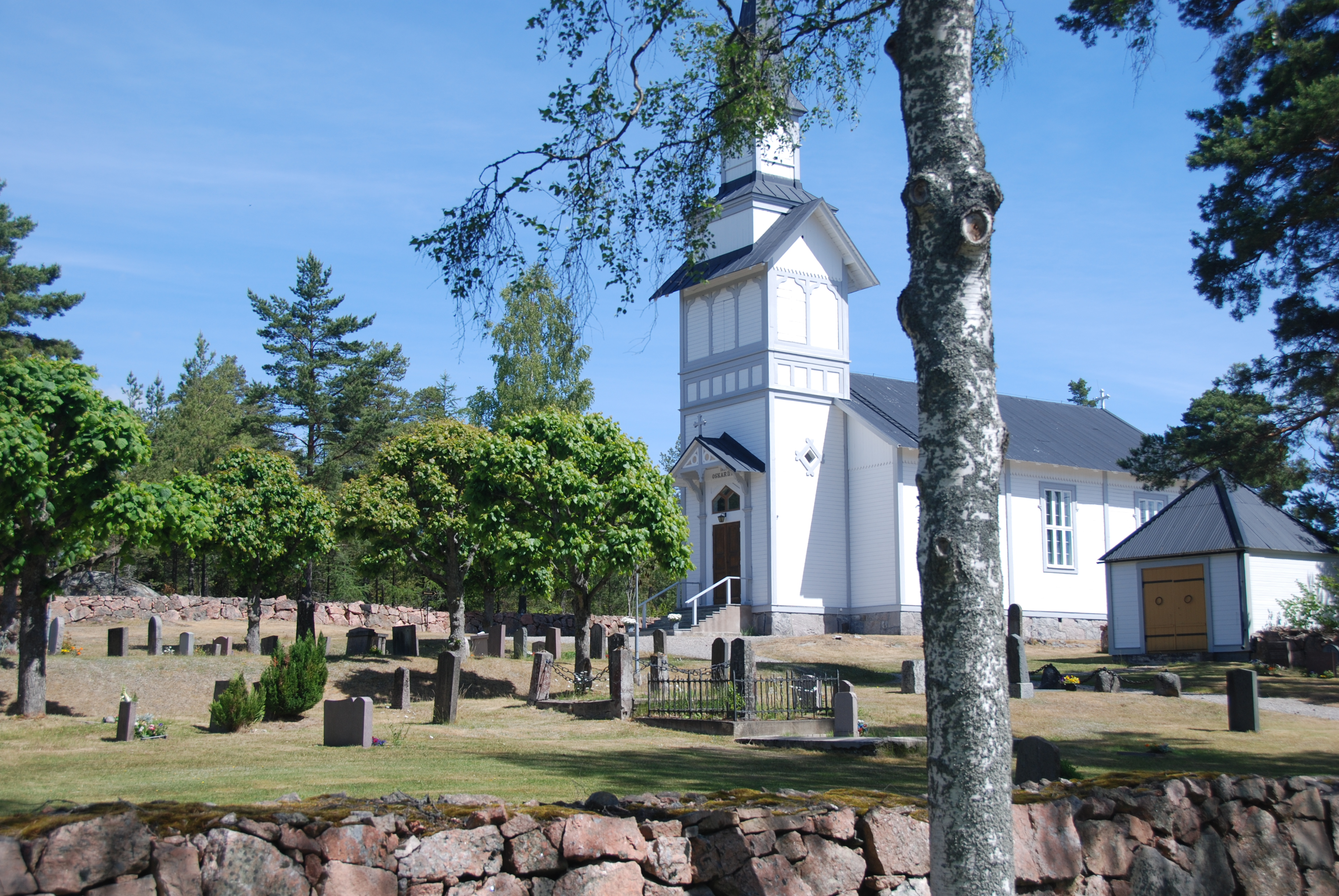 Ornö kyrka (church) on the island of Ornö, Sweden.